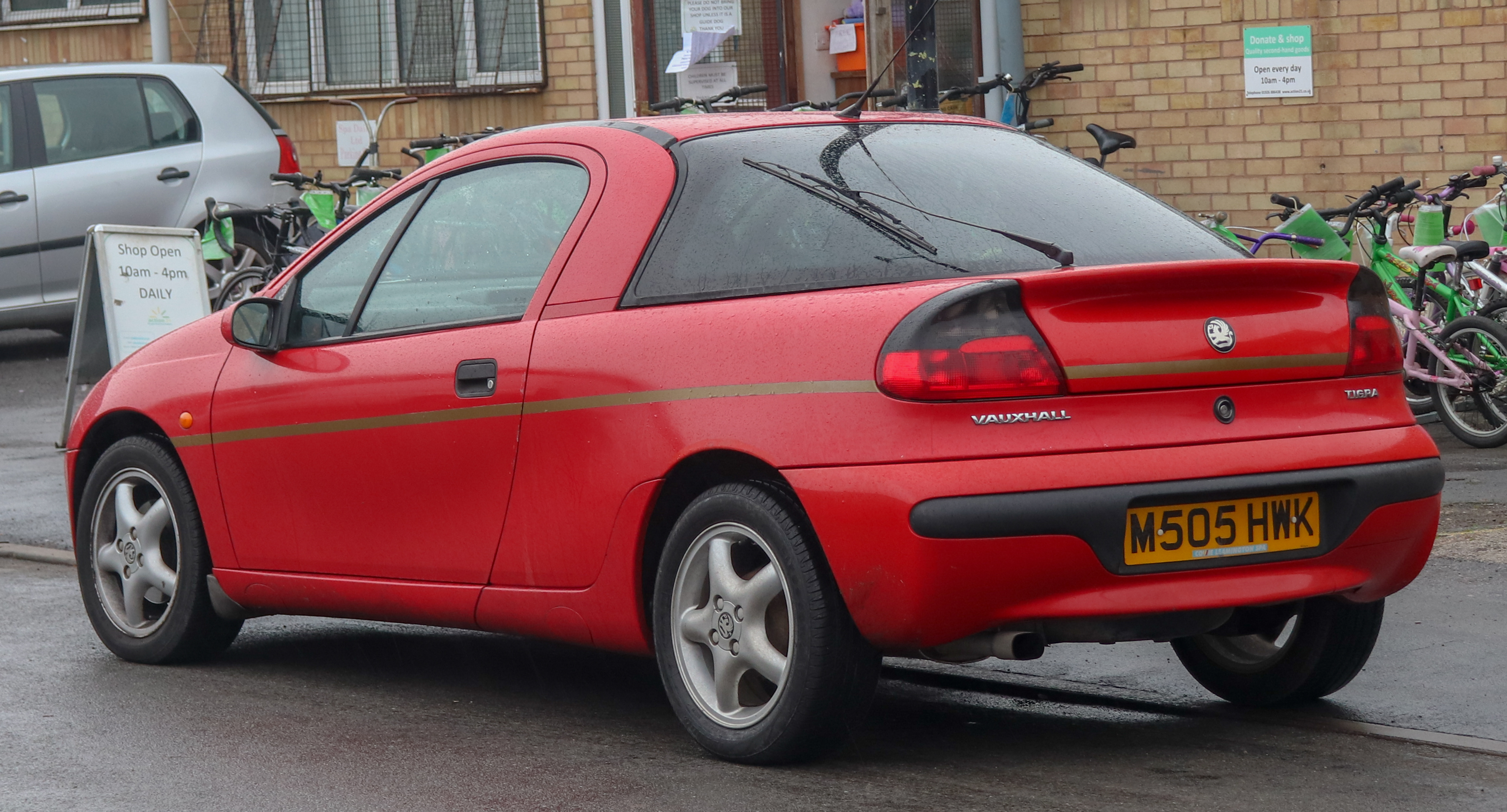 1995 Vauxhall Tigra 1.6 Rear (Early M Reg) Taken in Leamington Spa